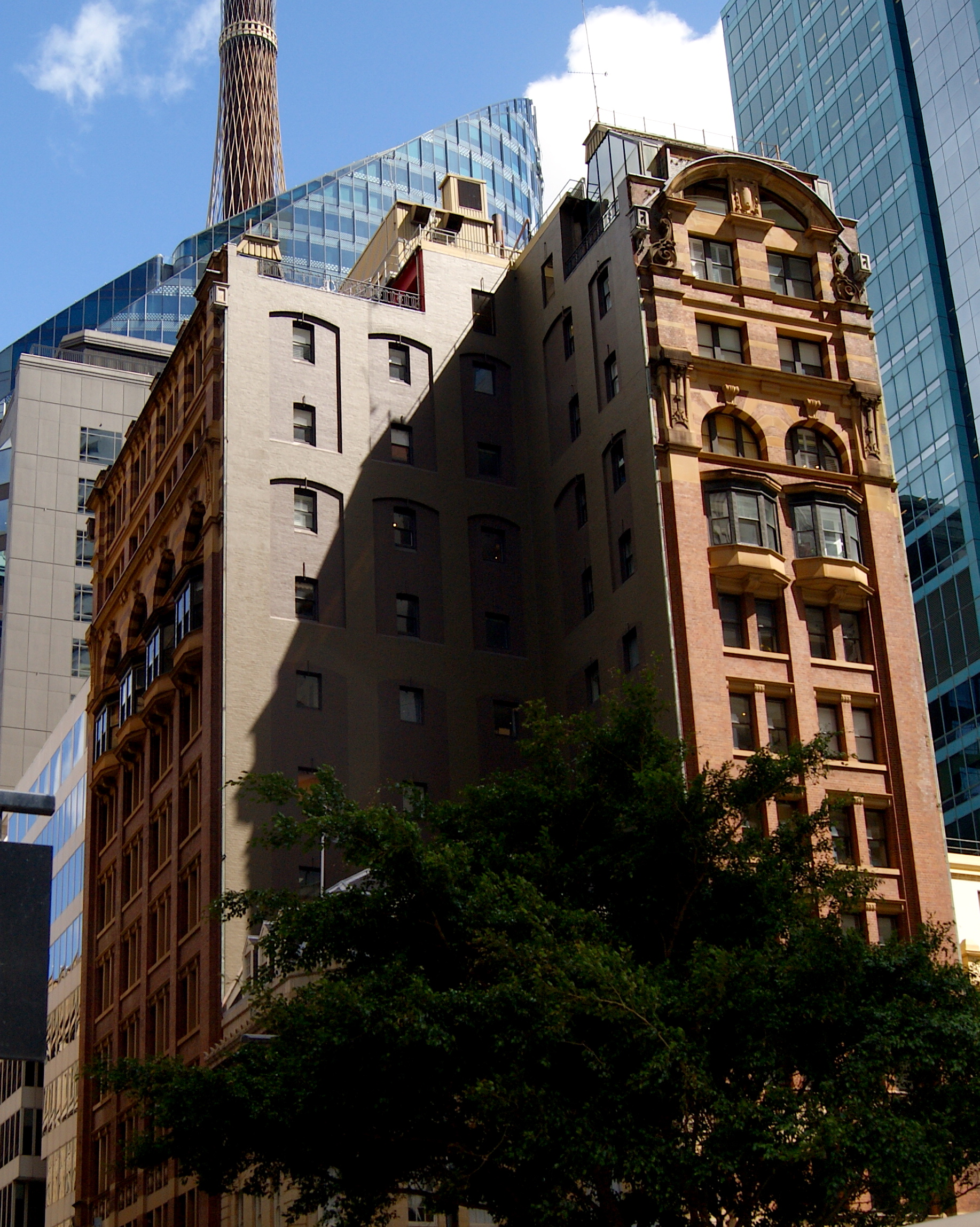 Sydney's first skyscraper, Culwulla Chambers, was completed in 1912.